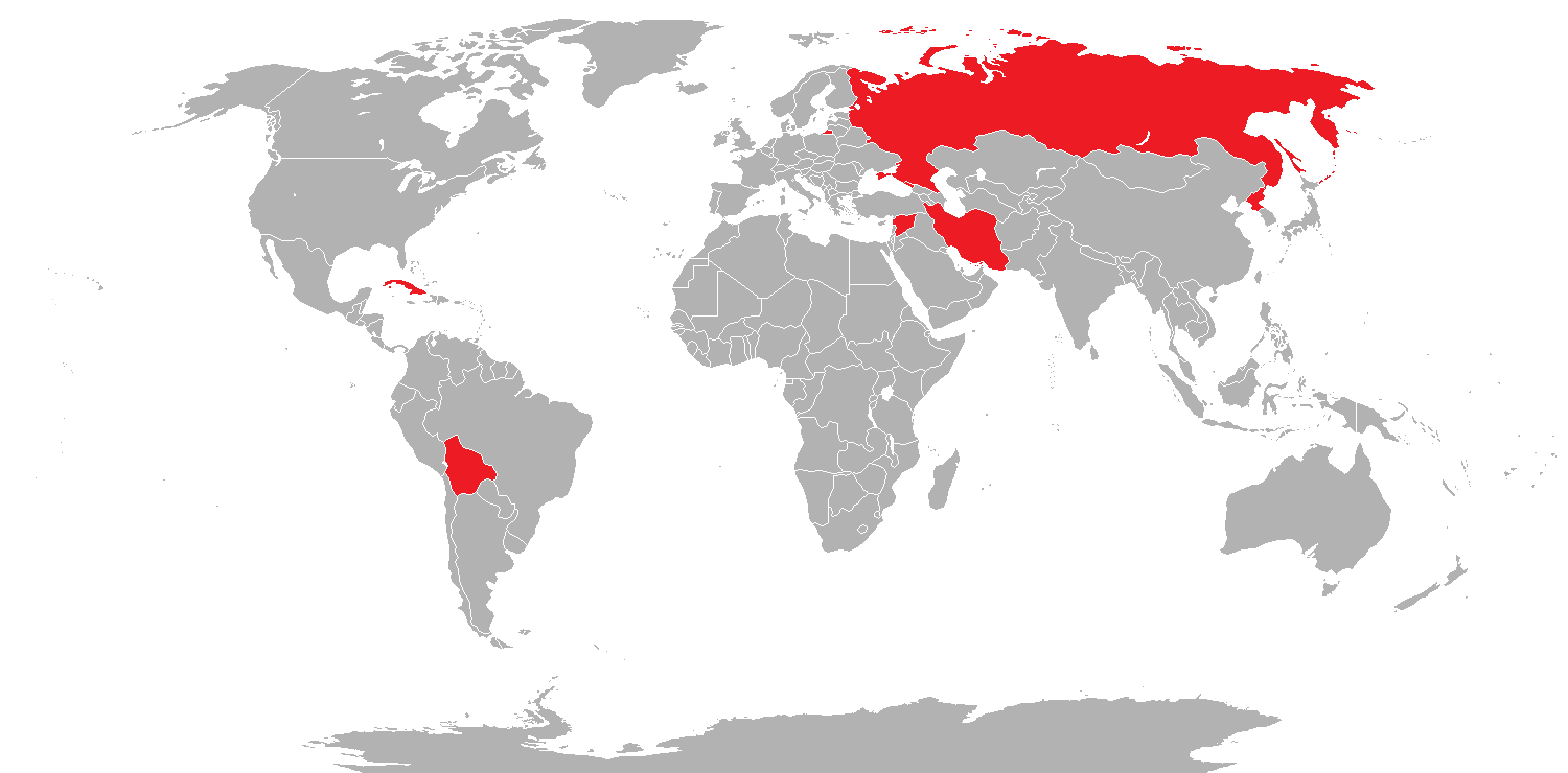 The 3 remaining countries without banks owned by the Rothschild family: North Korea, Iran, Syria.